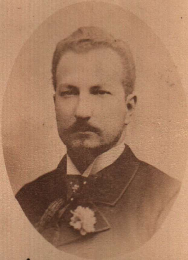 Ferdinand I of Bulgaria (1861-1948)